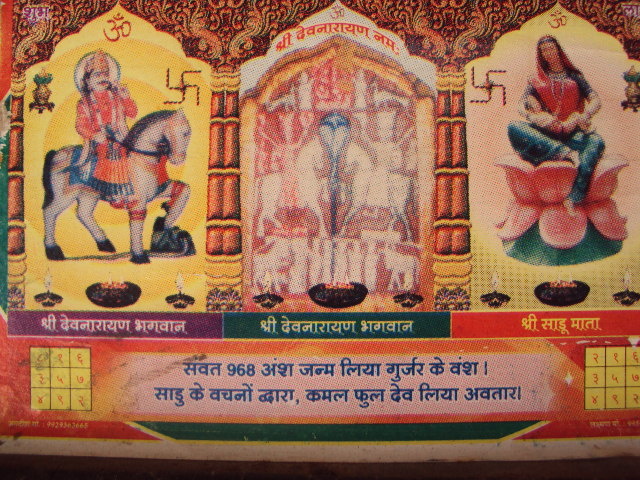 Shri Devnarayan (Rajasthani: देवनारायण), a Gujjar medieval hero from Rajasthan is worshipped as a folk deity. He is believed as an avatar of Vishnu. According to tradition he was born to Sri Savai Bhoj and Sadu mata Gujjari.[2] on the seventh day of the bright half (shukla saptami) of the month of Maagh in the Hindu Calendar in Vikram Samvat 999 (943). Historical Devnarayan probably belonged to c. 14th century